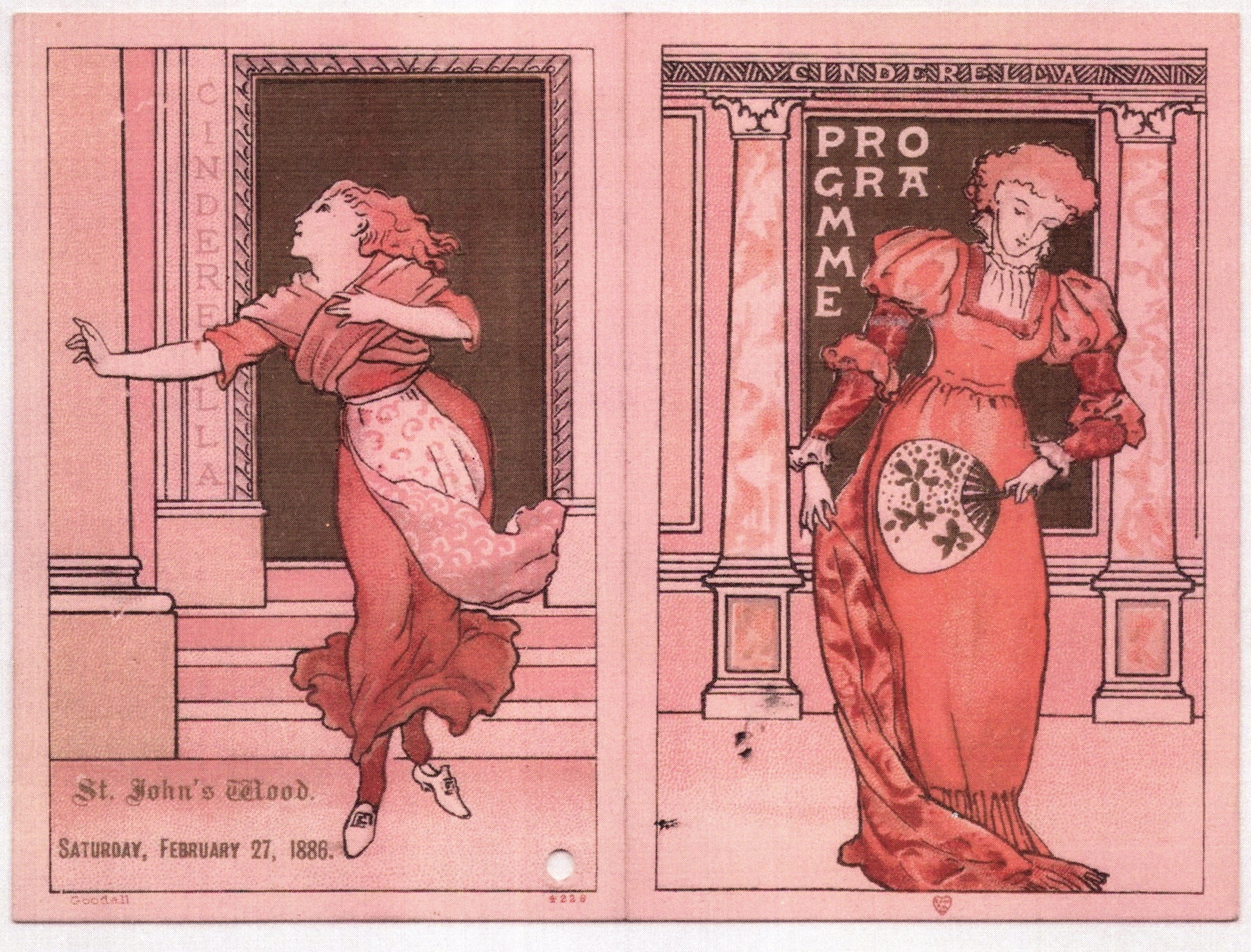 This is a dance card used for one of many Balls held at St. John's Wood house. The lady would tie the card around her wrist (note hole in card) The gentleman would approach her and ask for a dance later in the night. She would then write the gentleman's name against one of the dances on the list until her card became full.